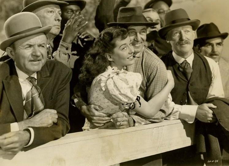 Gail Russell and John Hoyt (center) in The Great Dan Patch (1949) - publicity still cropped & modified (original image damaged : see source)